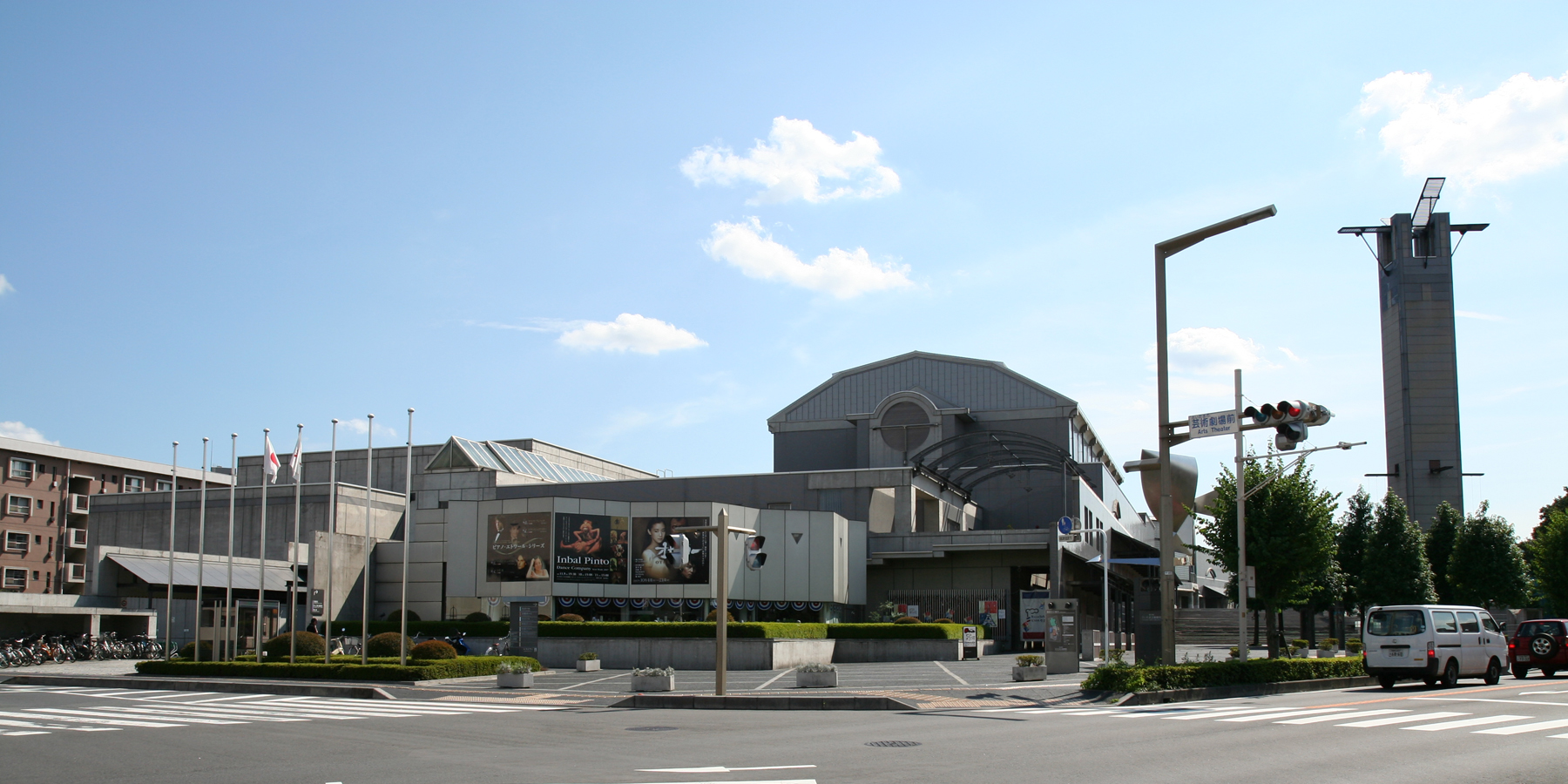 Sai-no-Kuni Saitama Arts Theater in Saitama prefecture.